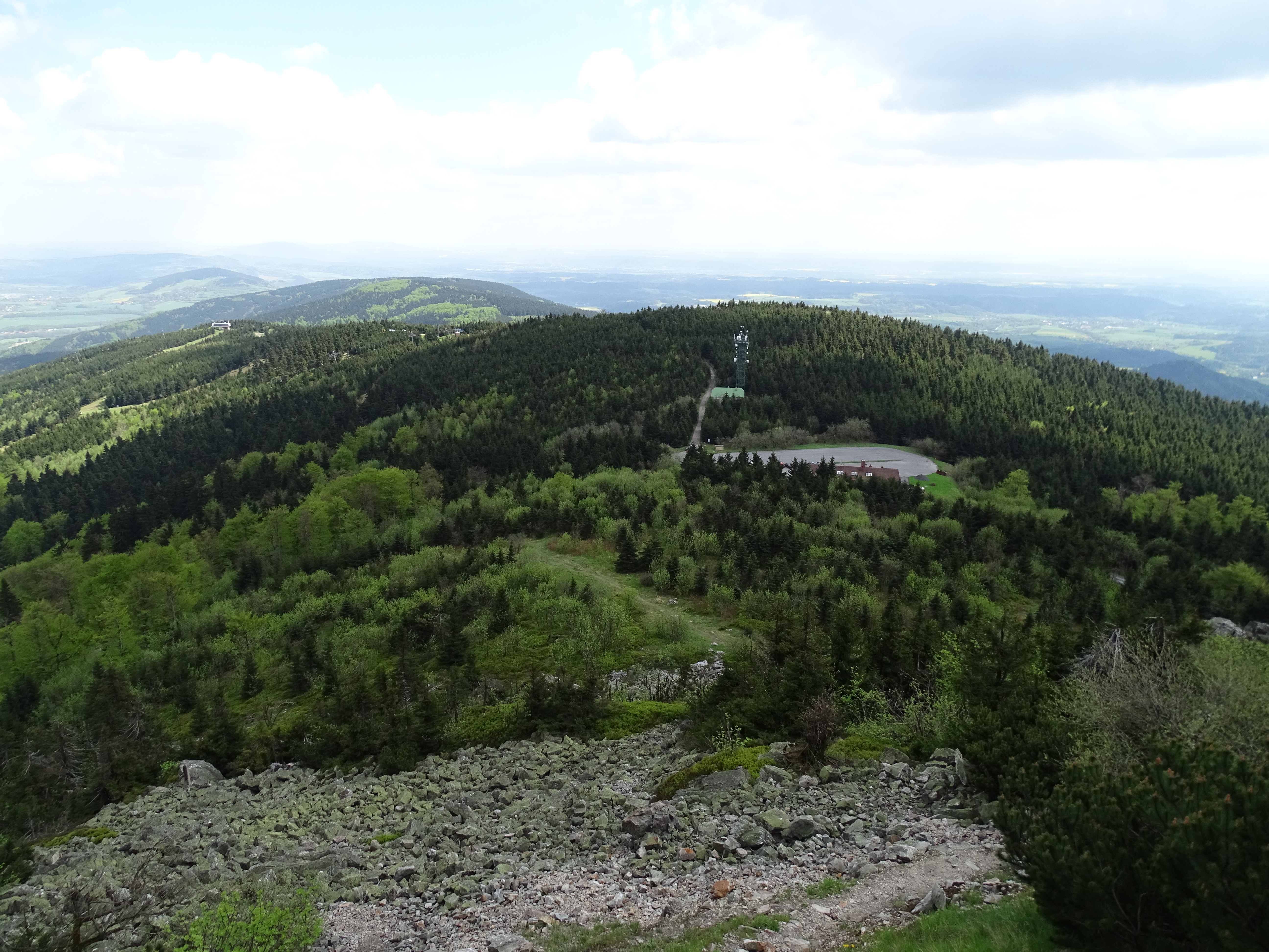 Liberec XIX-Horní Hanychov and Světlá pod Ještědem, Liberec District, Liberec Region, Czech Republic. Ještěd hill, a view of Ještědka and Černý vrch.